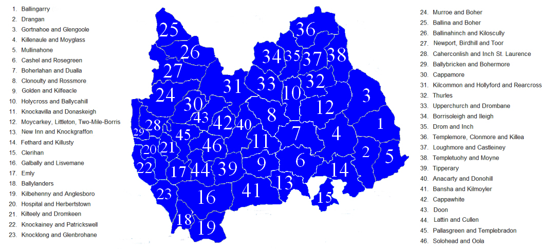 Improved map of the parishes in the RC diocese of Cashel and Emly, with legend showing their names. A version of this map without the legend can be found here